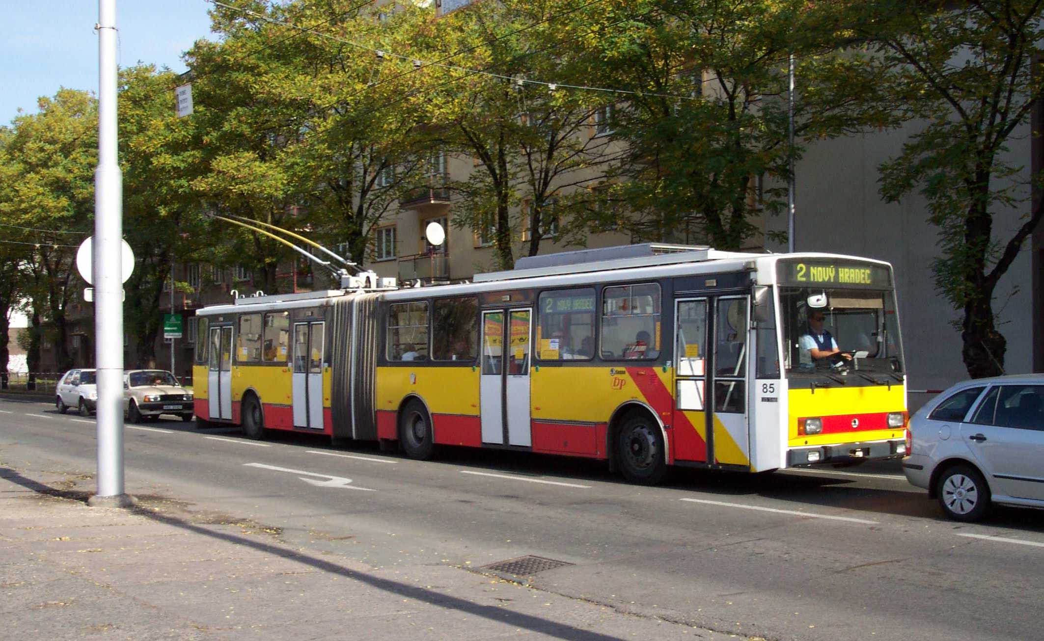 Škoda 15TrM trolleybus in Hradec Králové, Czech Republic.